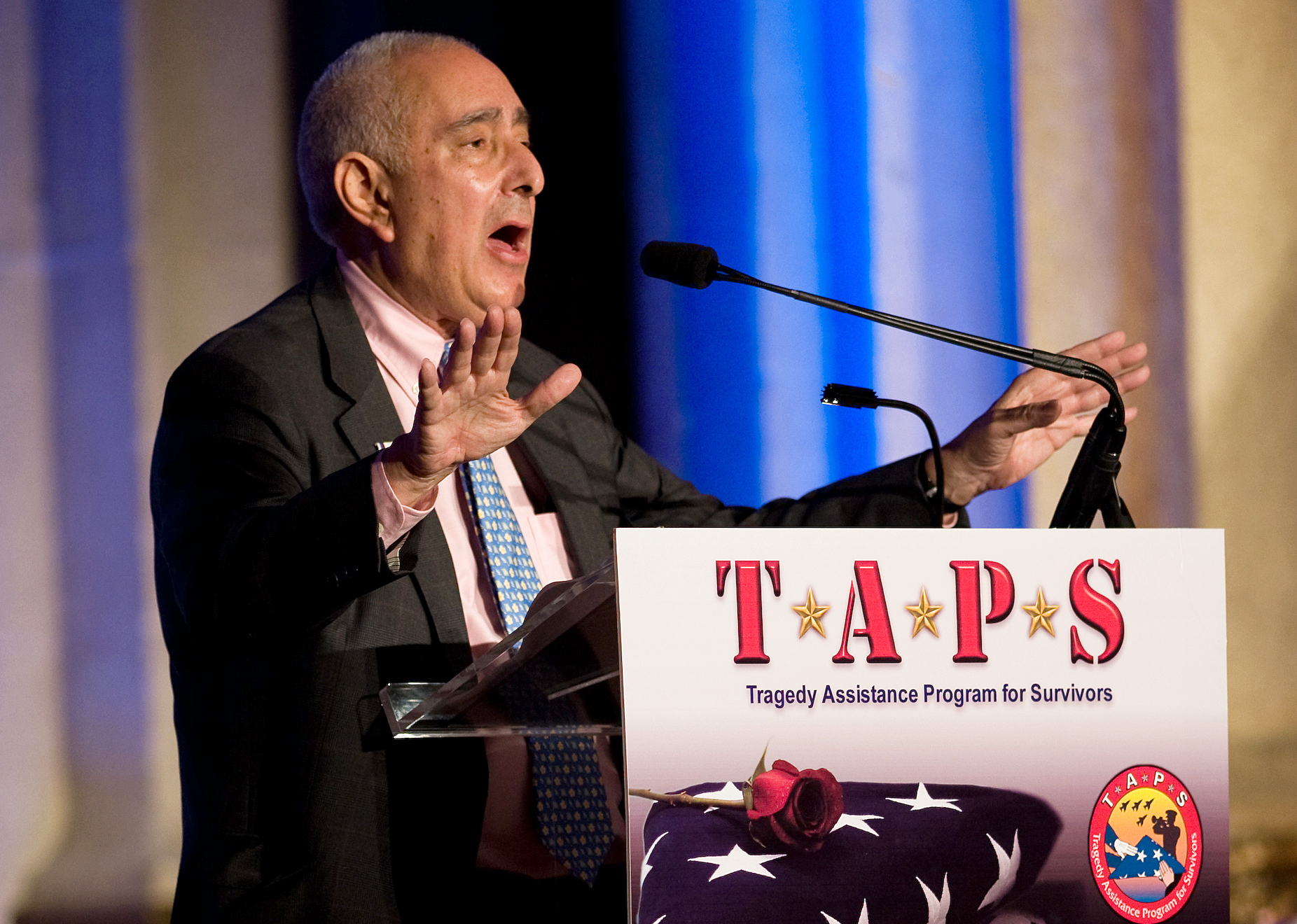 Ben Stein, actor, author and commentator, speaks at a gala in honor of the Tragedy Assistance Program for Survivors, or TAPS, Washington, D.C..